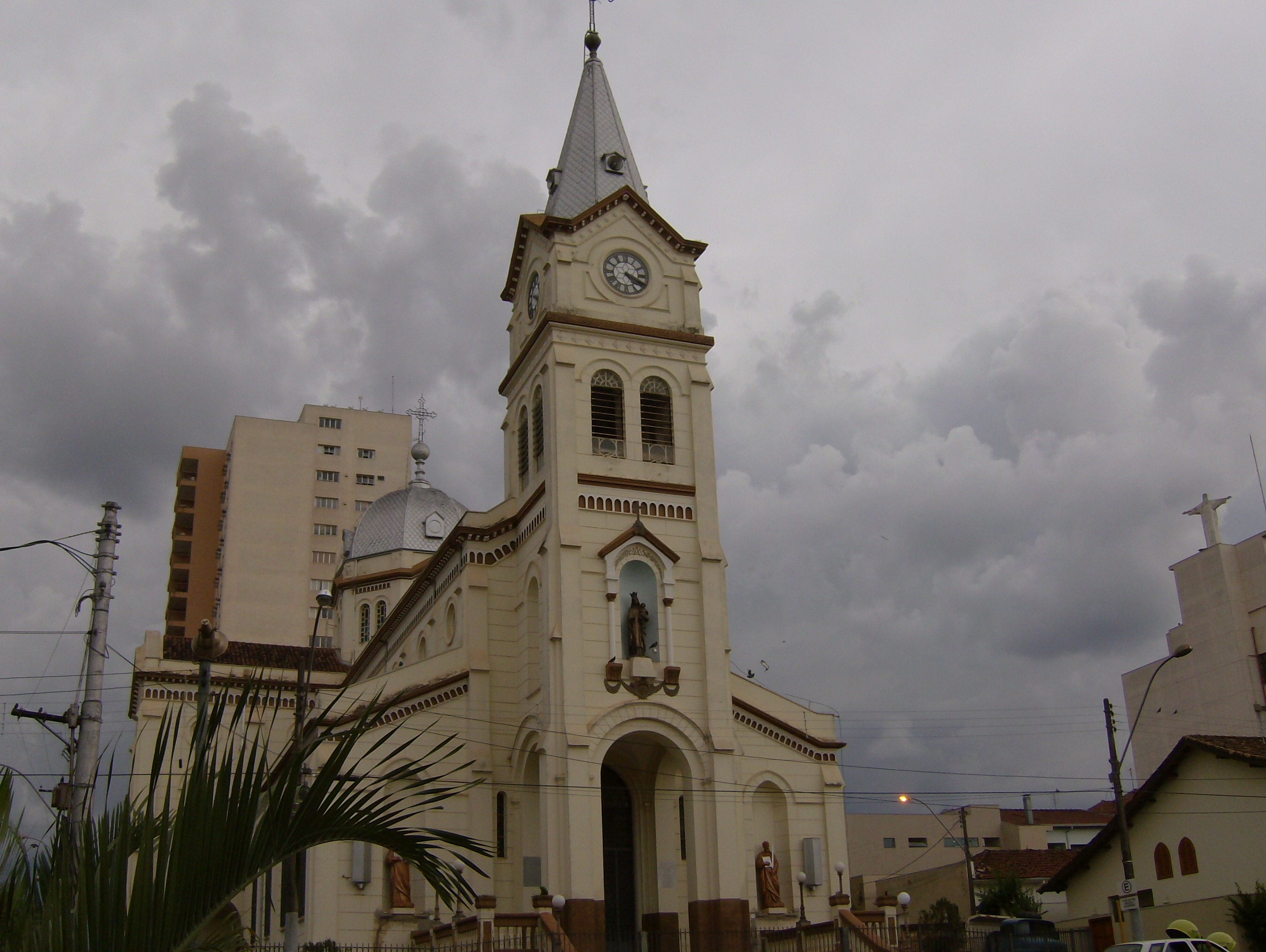 Front of the Our Lady of Mount Carmel Cathedral, in Jaboticabal, São Paulo, Brazil.